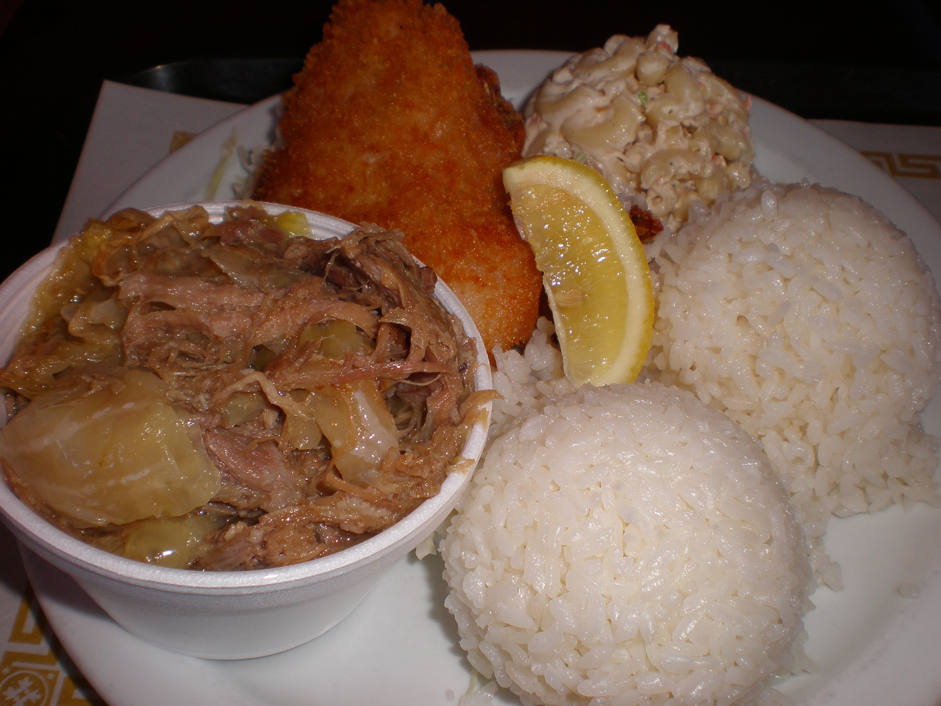 A combination seafood and kalua pork meal from Lukoki Hawaiian BBQ in Mountain View, California.